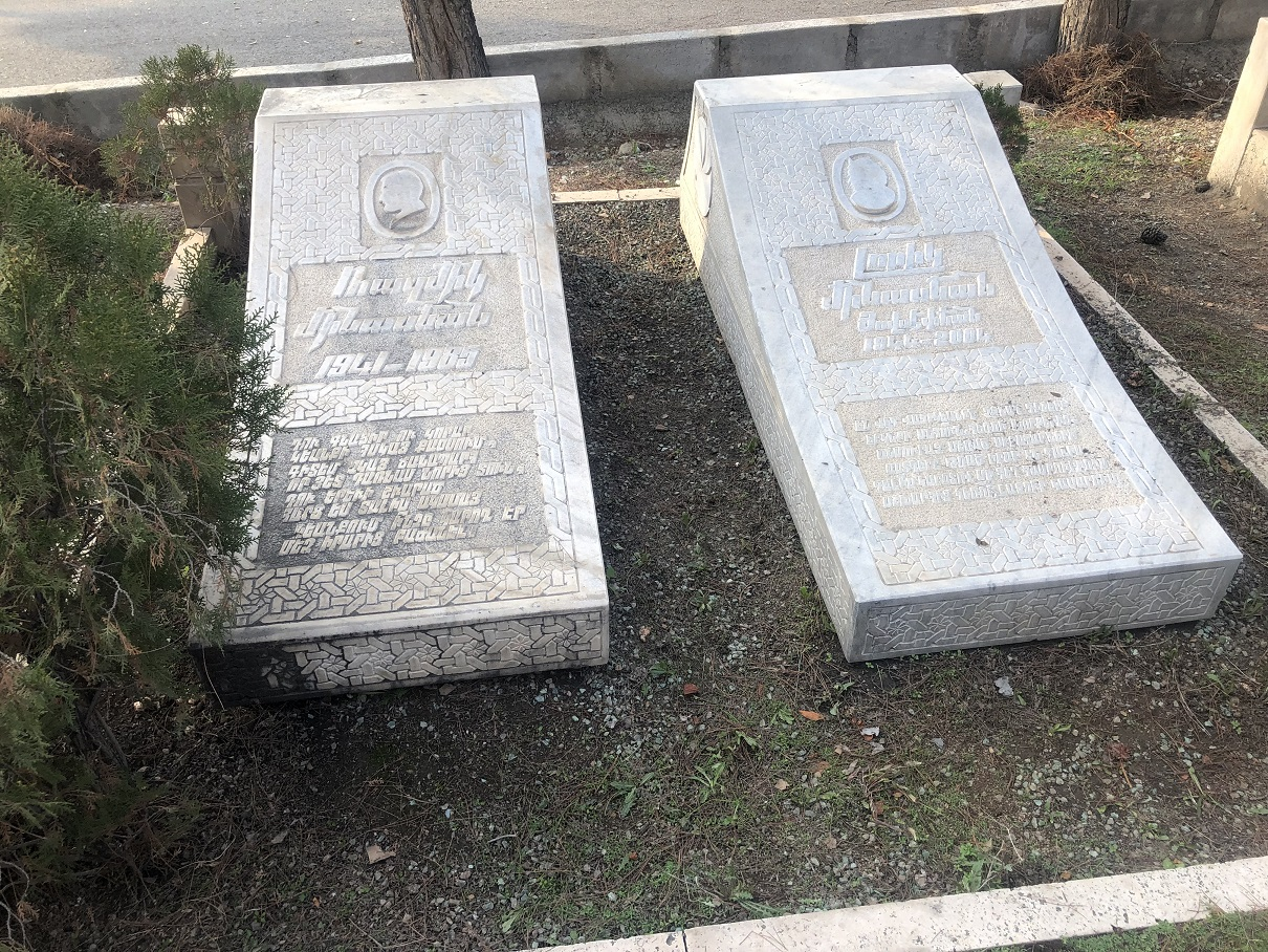 Burastan Cemetery